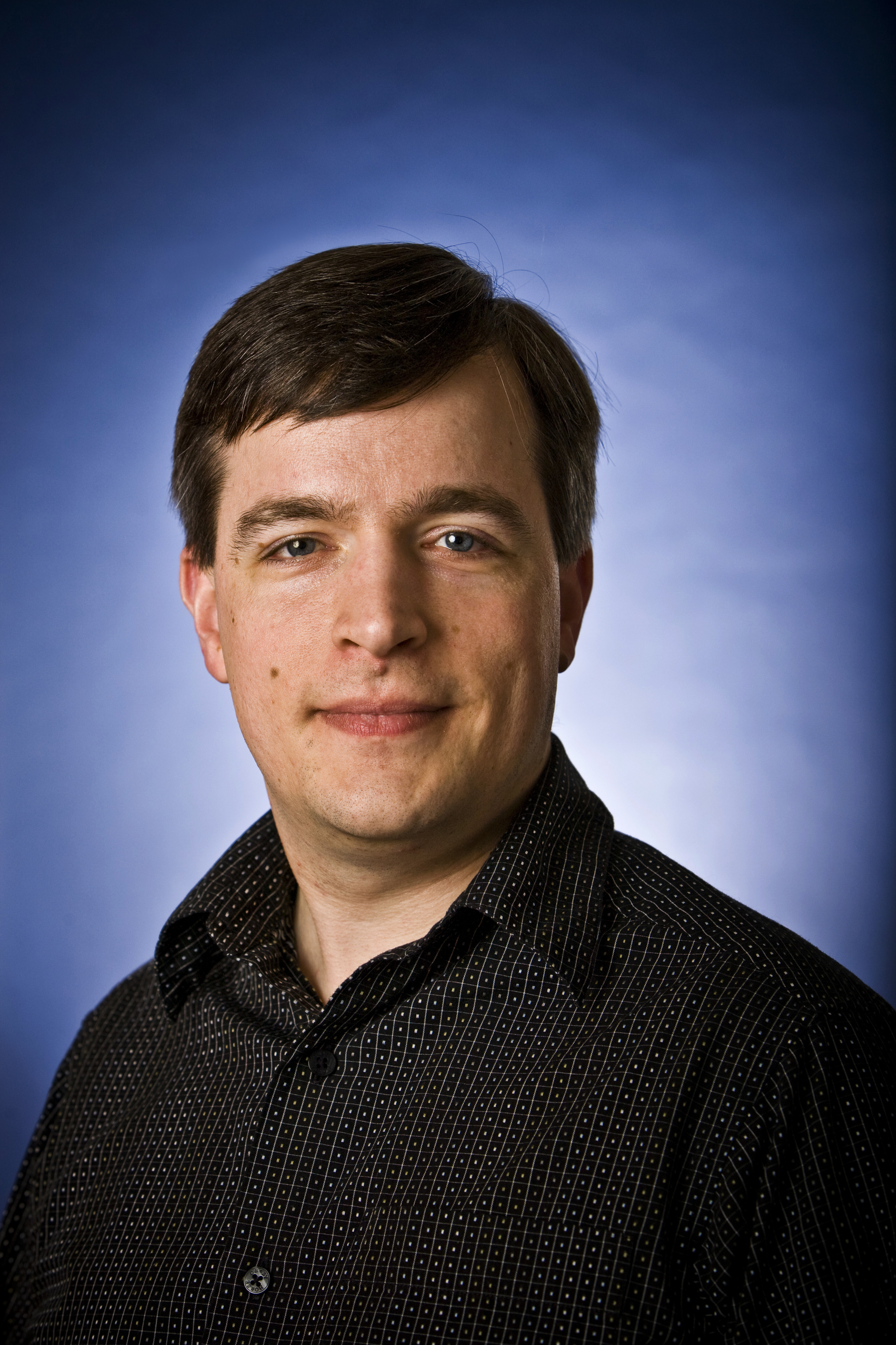 Michael Snow promotional photograph.